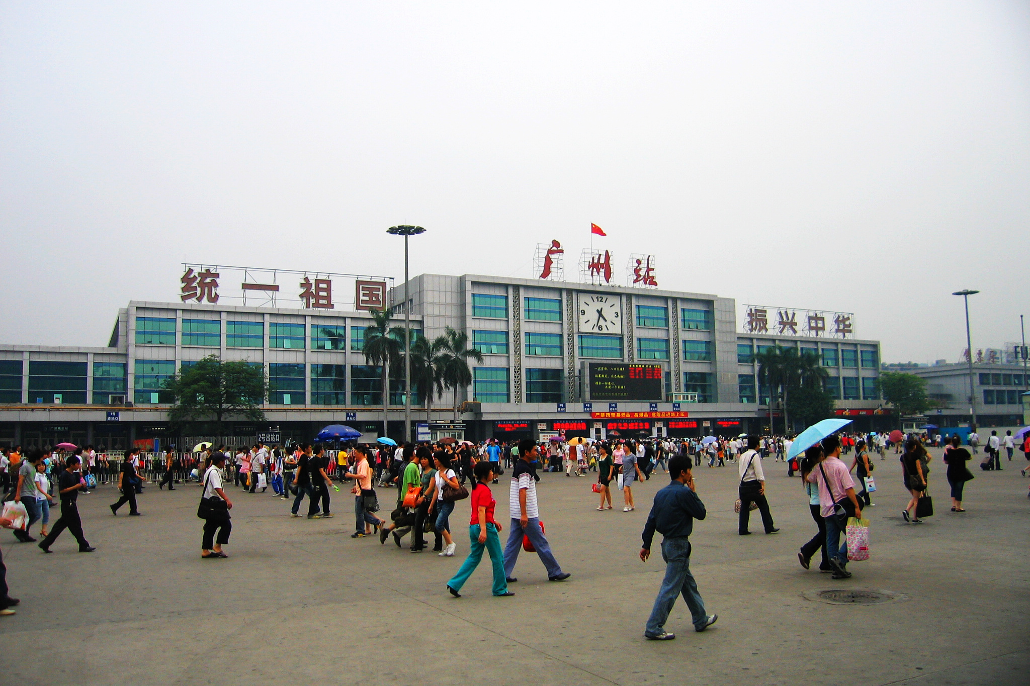 Guangzhou Main Train Station.